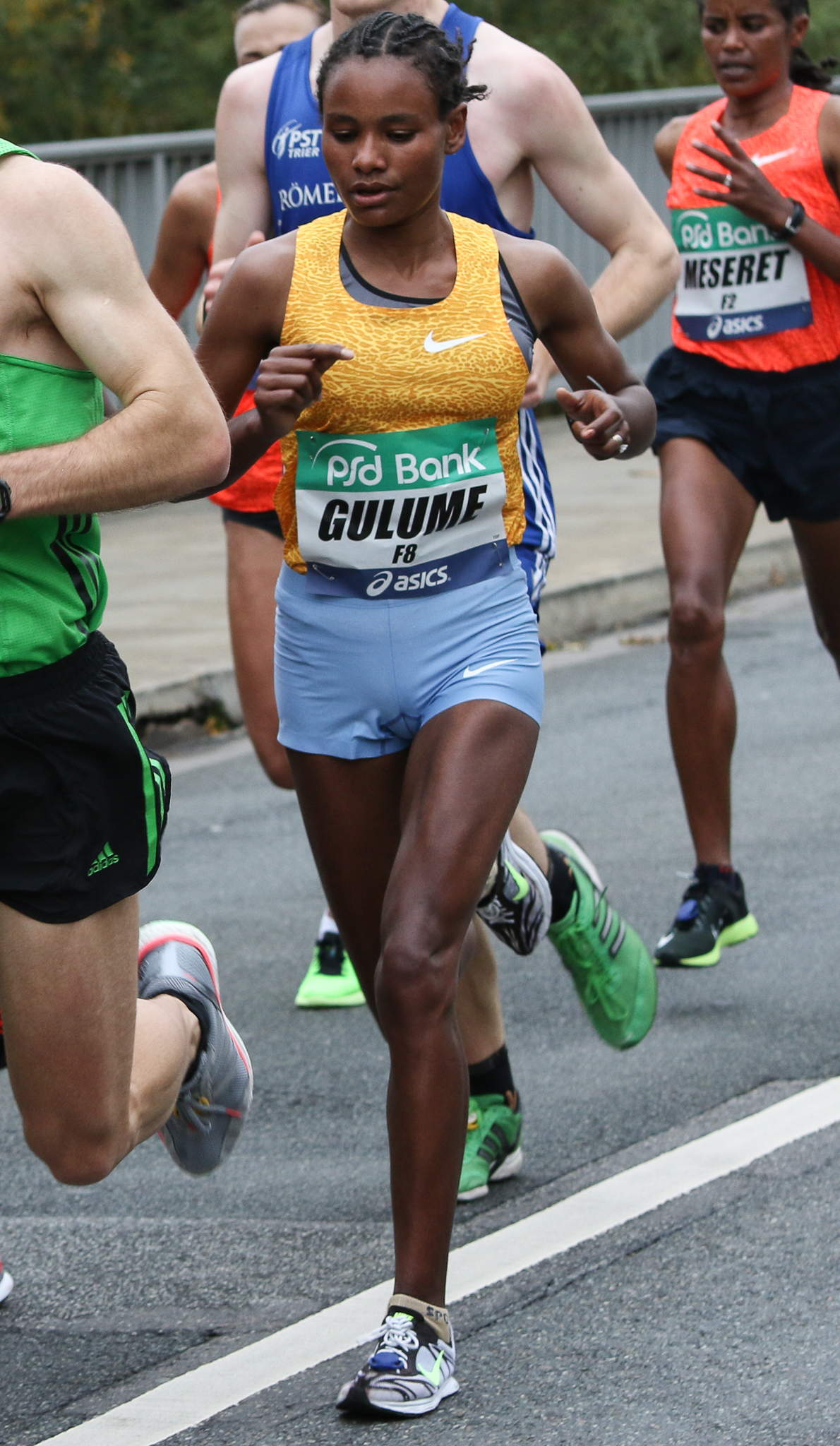 Frankfurt Marathon 2015 Old Nidda Bridge, Frankfurt-Nied Women's winner Gulume Tollesa